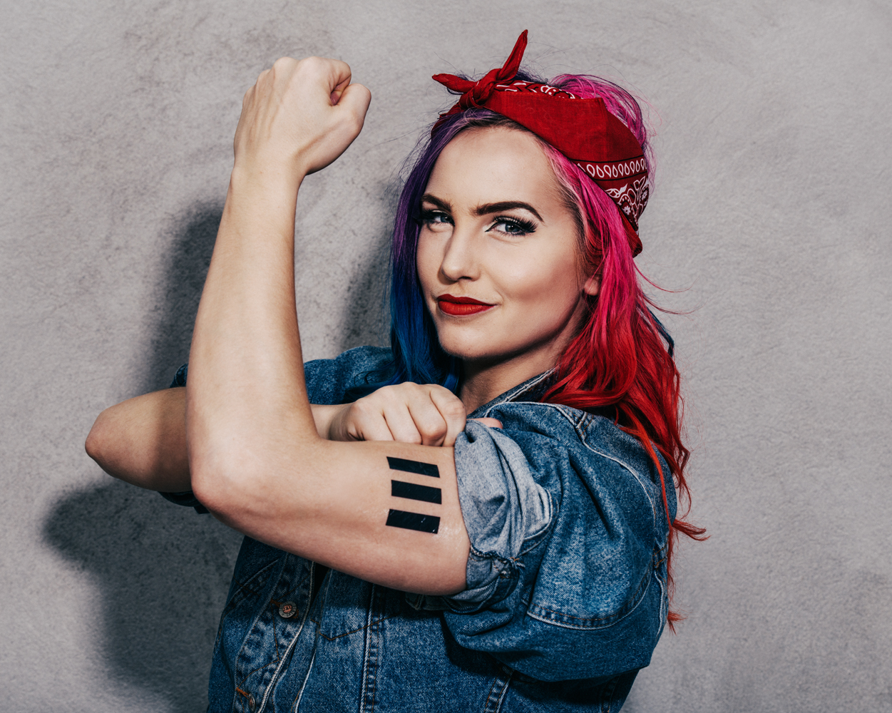 Swedish handball player Linnéa Claeson in 2017.